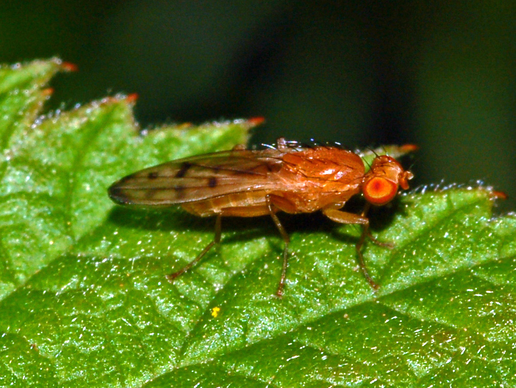 Female of Opomyza florum in Regional Park Capanne di Marcarolo, Alessandria, Italy